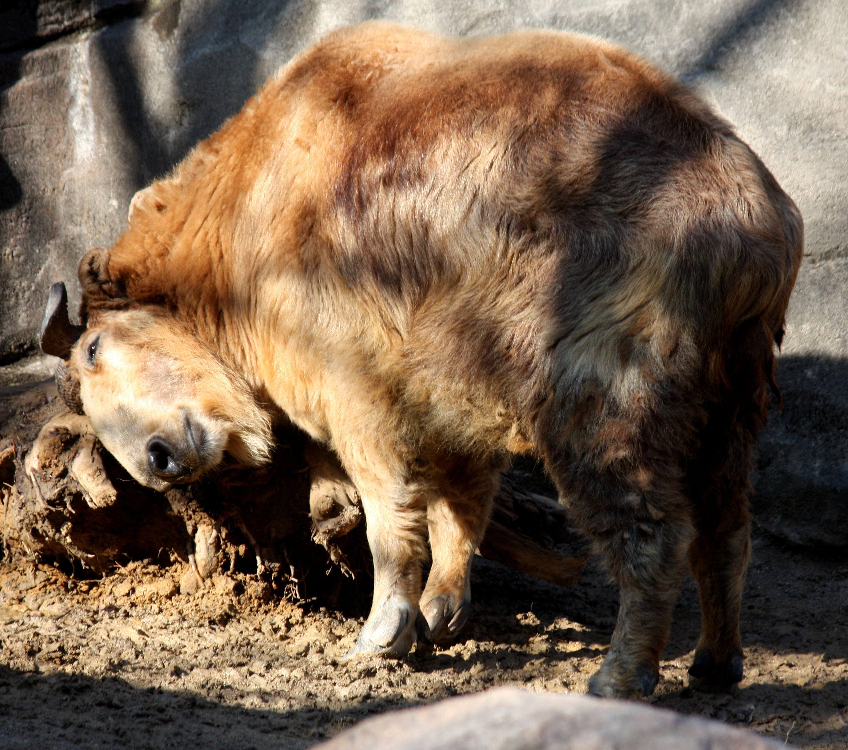 Takin "Budorcas taxicolor tibetana" at Cincinnati Zoo